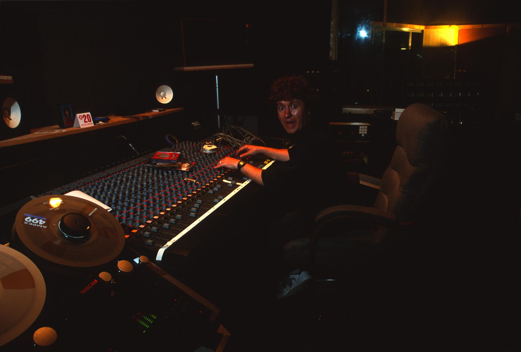 Jeff Forrest of Doubletime Recording Studio, where Blink recorded their earliest demos